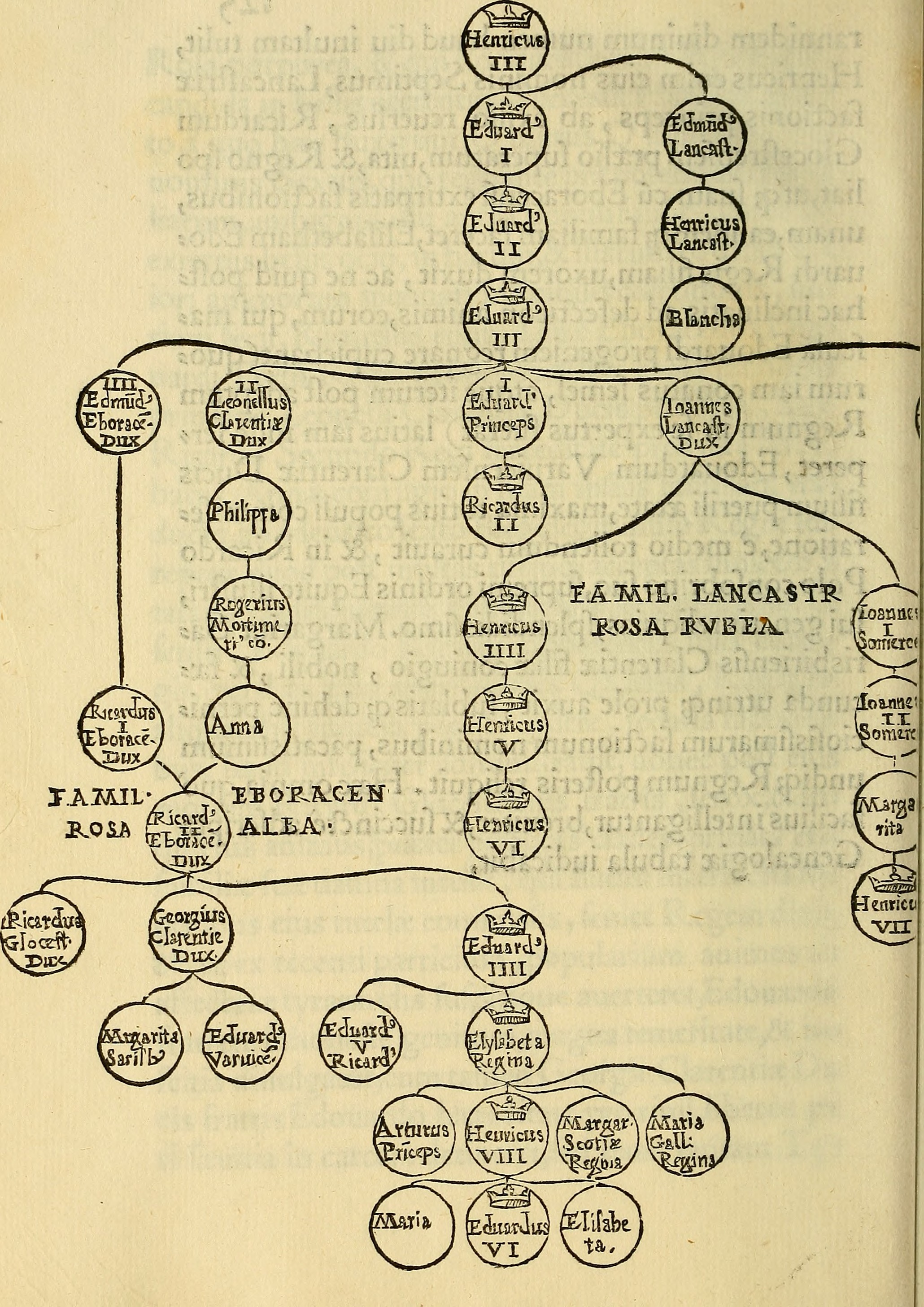 Title: Descriptio Britanniae, Scotiea, Hyberniae, et Orchadvm Year: 1548 (1540s) Authors: Giovio, Paolo, 1483-1552 Subjects: Publisher: Venetiis : apud M. Tramezinum Text Appearing Before Image: imus,Lancaftriasfaclionis princcps , ab exilio rcuerfus , RicardumGloceftrenfemprxlio fuperatum,uita,& Regno fpoliat,utq$ fuam cu Eboracenfiextirpatisfaclionibus,unam,candemcp familiam faceret,EJifabetham Edo*uardi Rcgisfiliam,uxorcm duxit, ac ne quid pofbhacinclinatis addcfeclicon animis,eorum,qui ma*fcula Edouardi progeniem regnare cupiebant(quo*rum iam conatus femel, atqueiterum pofladeptumRegnum in feexpertus fuerat) latiusiam inde fer*peret, Edouardum Varuicenfem Clarentias Ducisfilium puerili a2tatc,maxima totius populi commiforatione,e medio tollendum curauit, SC in RicardoPolo confobrino fuo,fupremi ordinis Equite illuftri,fui generisreliquias,fplendidisfimo,Margaritae Saarisbirienfis Clarentiae filiaeconiugio , nobili ,8t fxscunda utrincg prole auxit, fublatis cf dehinc perni*ciofisfimarum faclionum nominibus, pacatisfimumundicj Regnum pofteris reliquit ♦ Haec omnia,quo%faciliusintelligantur,breuiter,5C fuccincle adfcriptaGenealogiae tabula iudicabit» REGVM GENEALOGIA. Text Appearing After Image: REGISTRVM. A* abcdefghiklmnopqrftuxys.aa bb cc dd ce ff gg hh, Duerniones omhes prater hh; qui eft ternio. Venetiisapud Michaelem TramesinmmM D X L V I I !♦